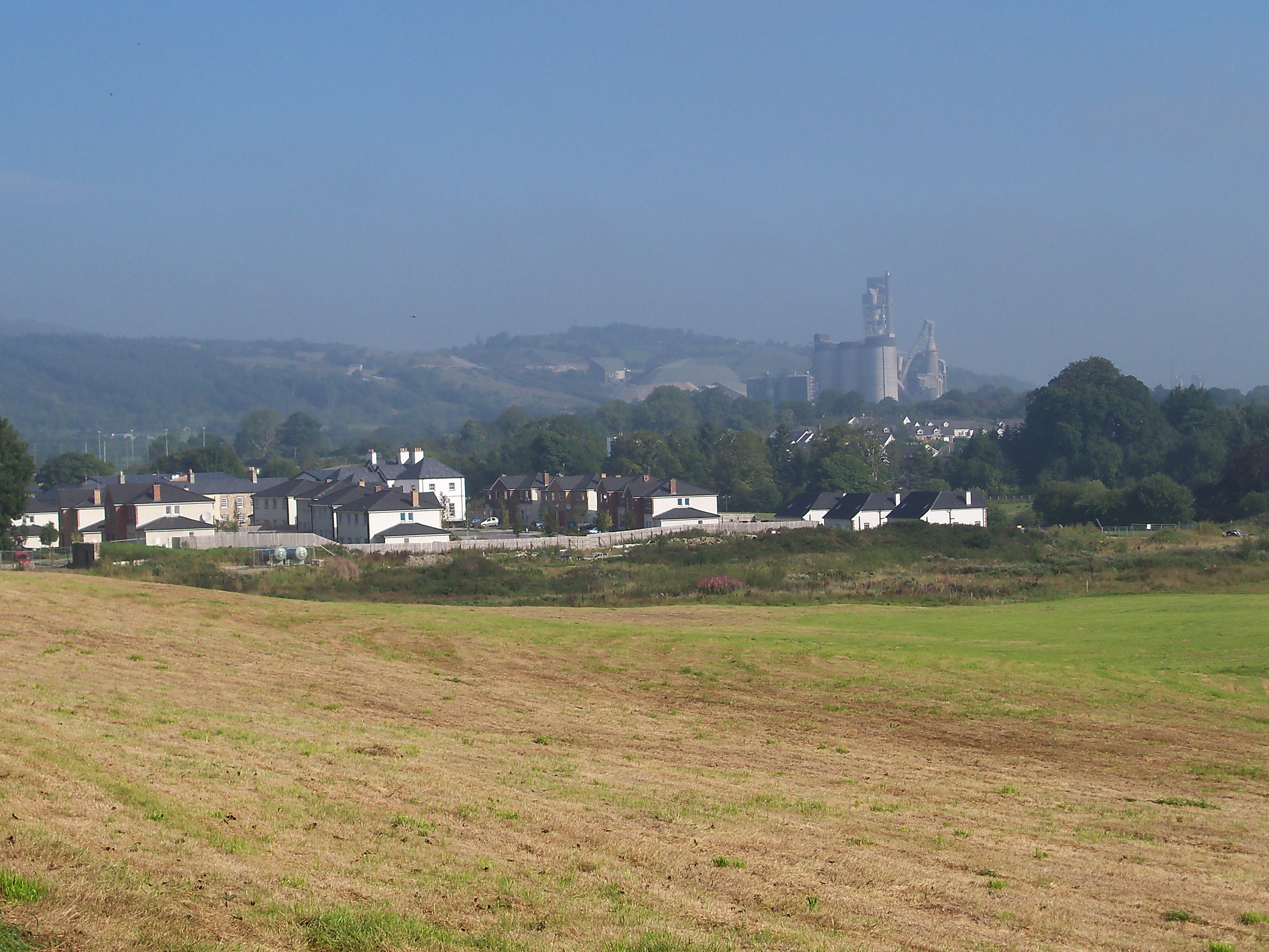 Ballyconnell, County Cavan, with Cement factory and Slieve Rushen in the background.